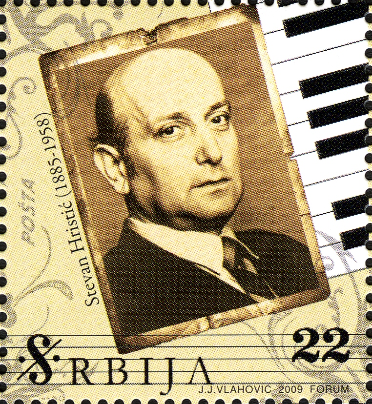 Great Personalities of Serbian Classical Music - Stevan Hristic (1885-1958)